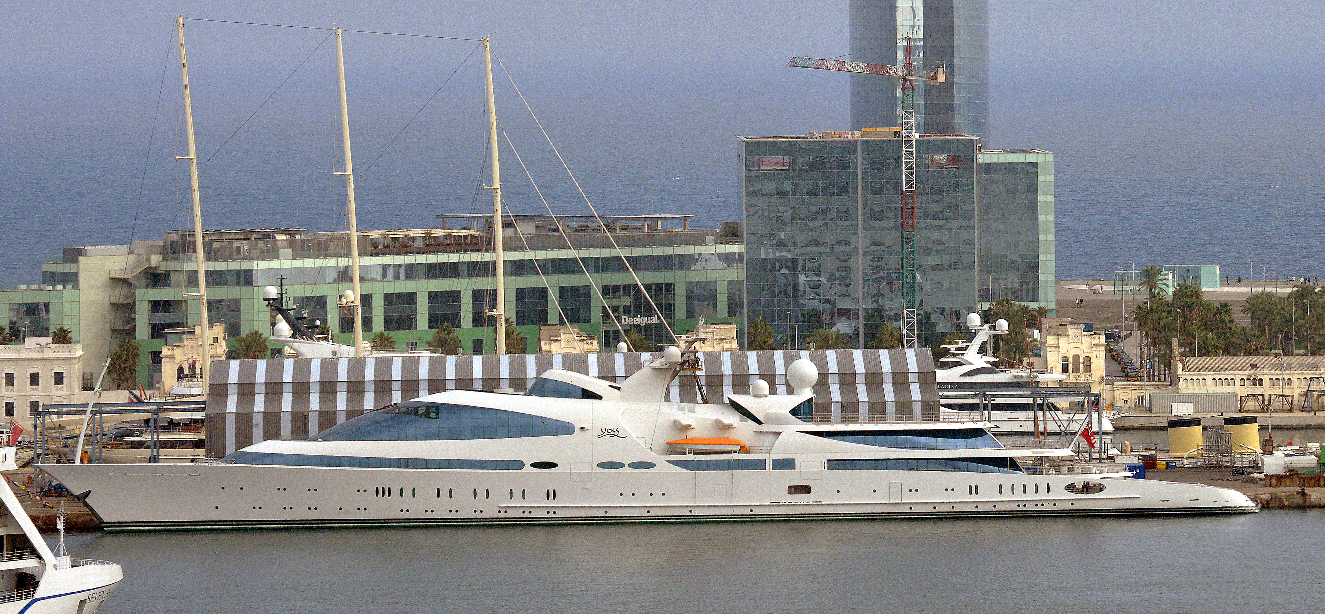 Montjuic; a broad shallow hill with a relatively flat top southwest of the city centre / A panorama of Barcelona